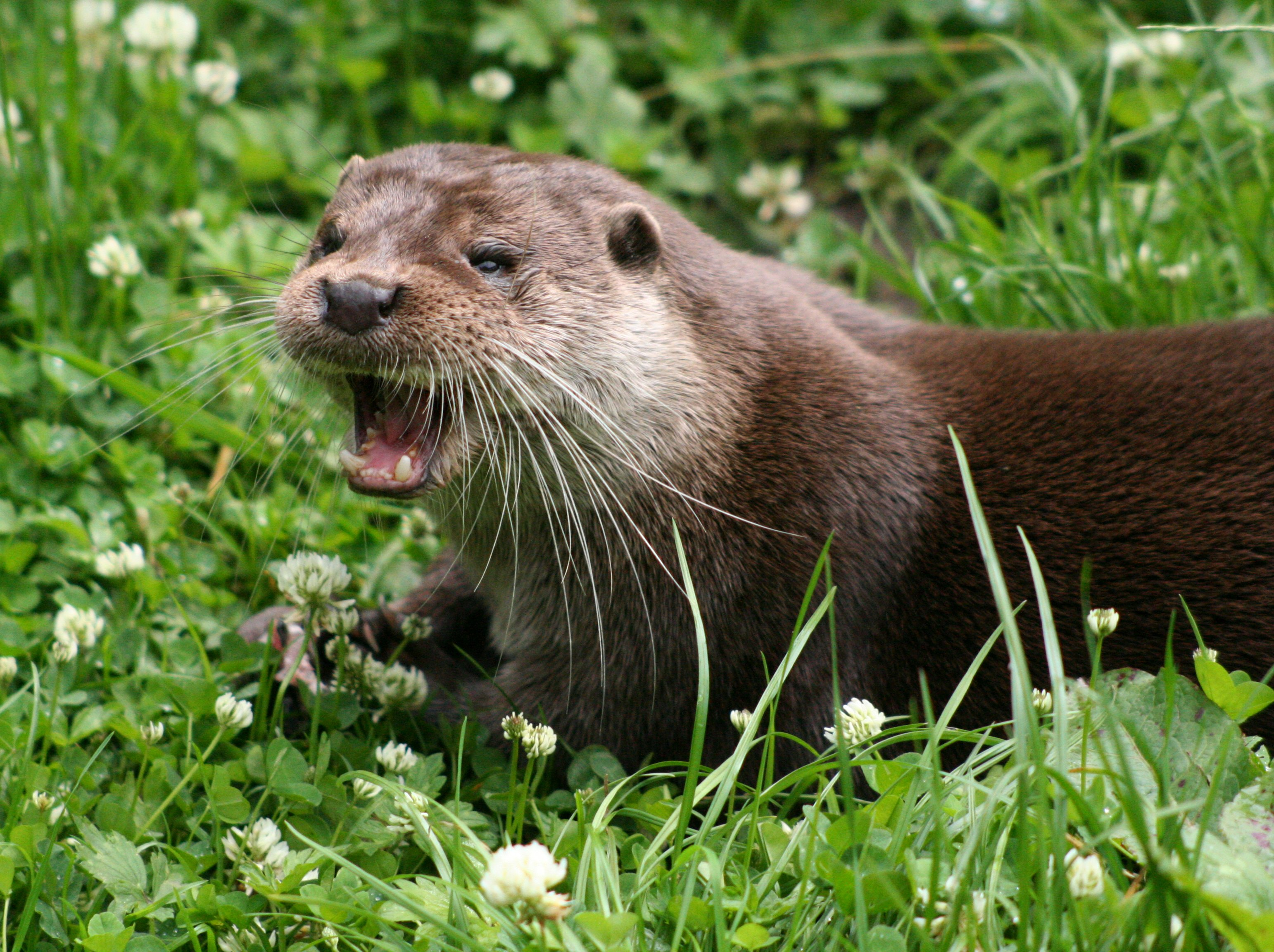 Eurasian otter (Lutra lutra) at the New Forest Otter, Owl and Wildlife Park (Hampshire, England).